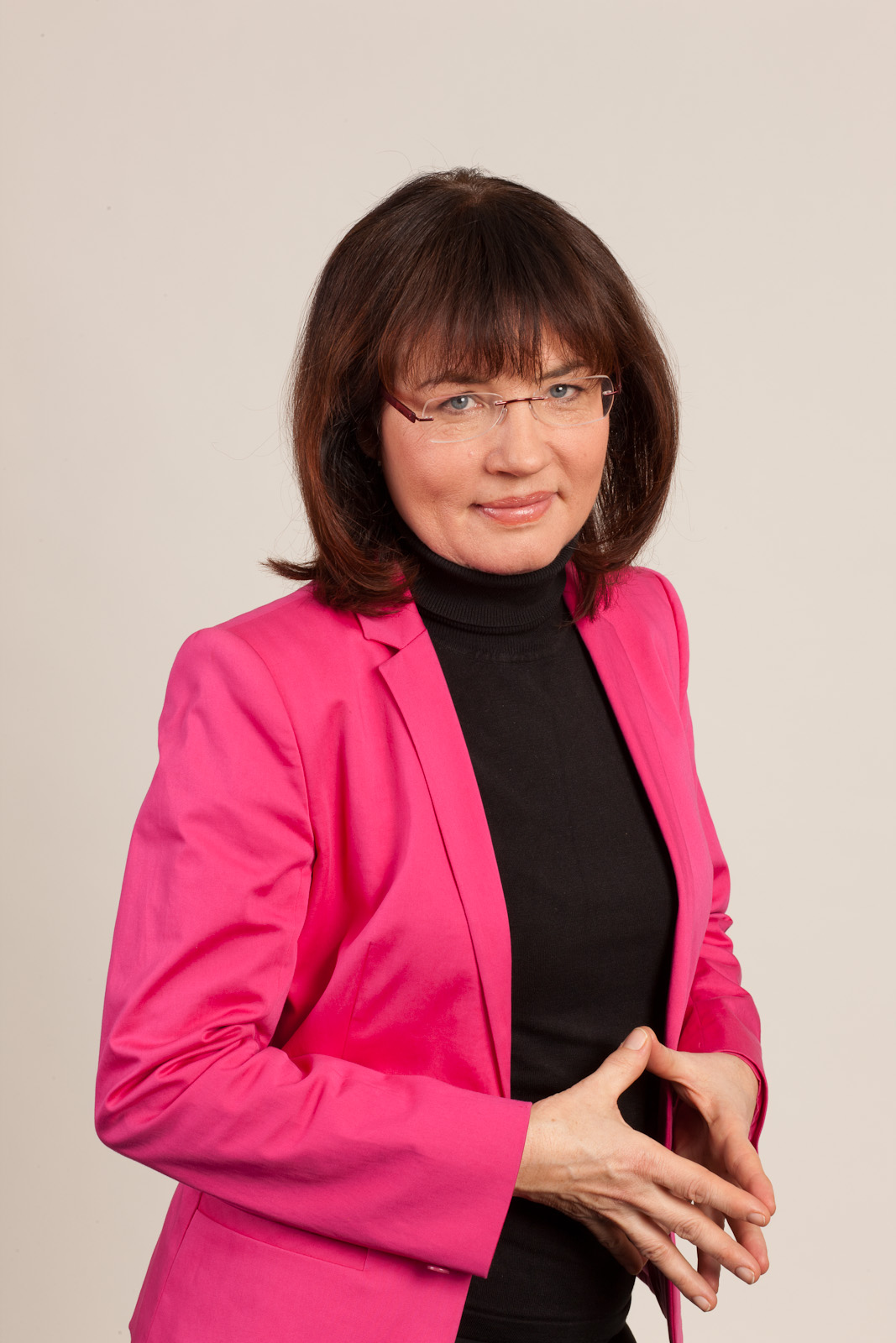 Foto shows Manuela Kasper Claridge